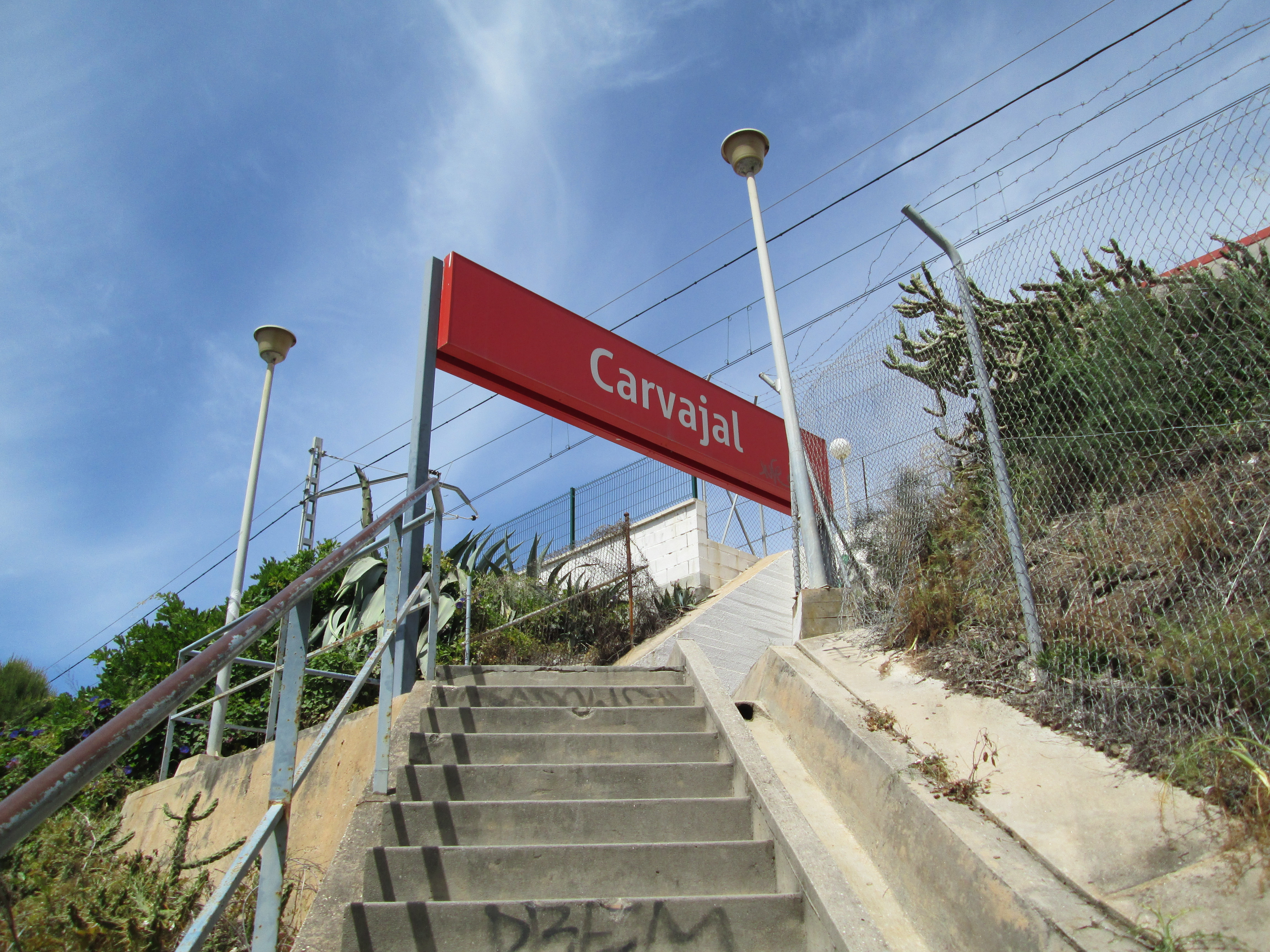 Fuengirola